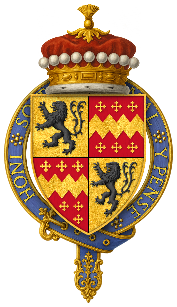 Coat of arms of Sir John Welles, 1st Viscount Welles, KG BURKE, Sir Bernard, The General Armory of England, Scotland, Ireland, and Wales: Comprising a Registry of Armorial Bearings from the Earliest to the Present Time, London: Harrison & sons, 1884. “Welles (Viscount Welles, extinct 1498; John Welles, only son of Leo, sixth Baron Welles, by his second wife, margeret, widow of John, Duke of Somereset, and grandmother of Henvry VII., was created after the accession of Henry VII., Viscount Welles, d.s.p.). Same Arms [Or, a lion ramp. double-queued sa. armed and langued gu.].”